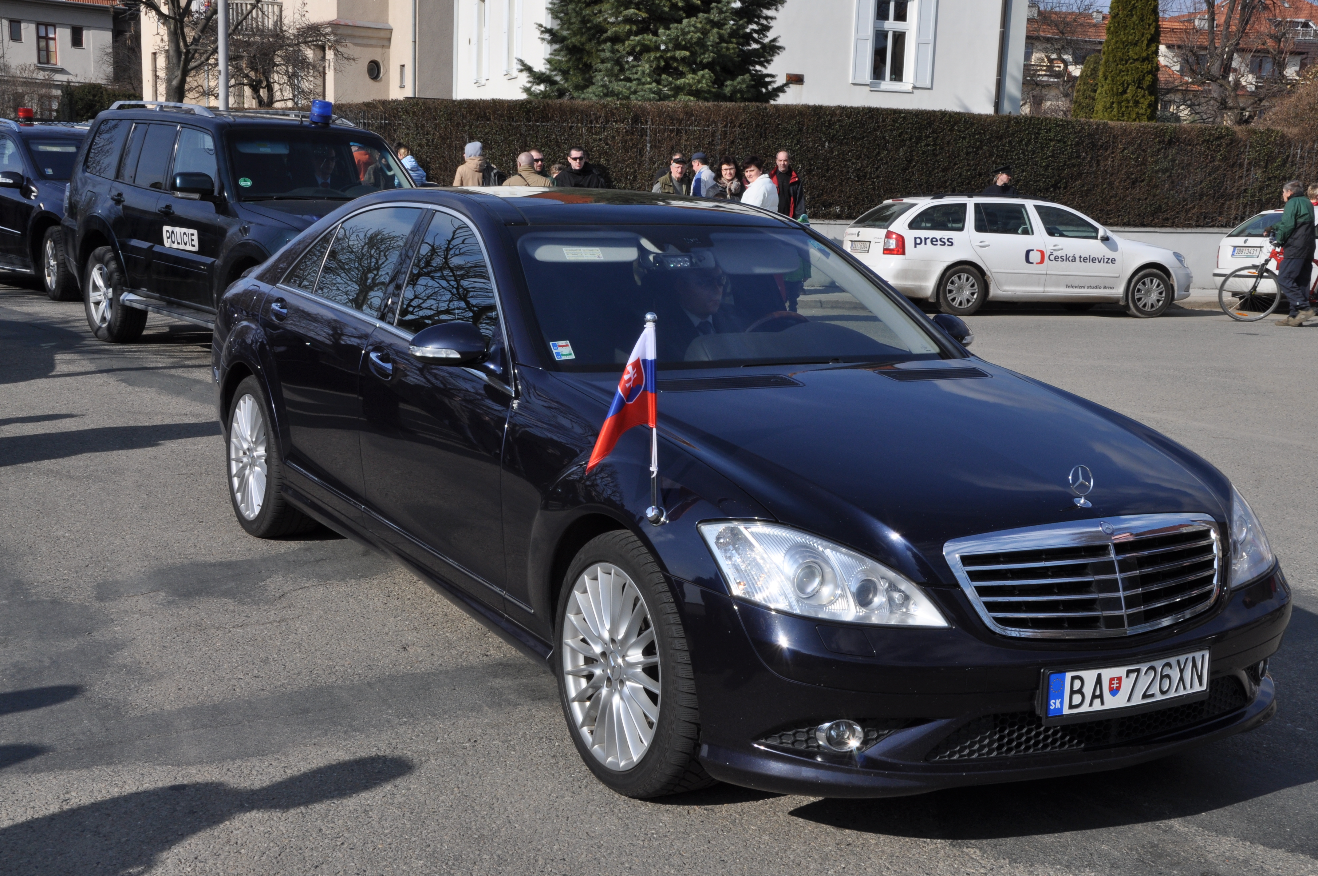 Official state car of the president of Slovakia